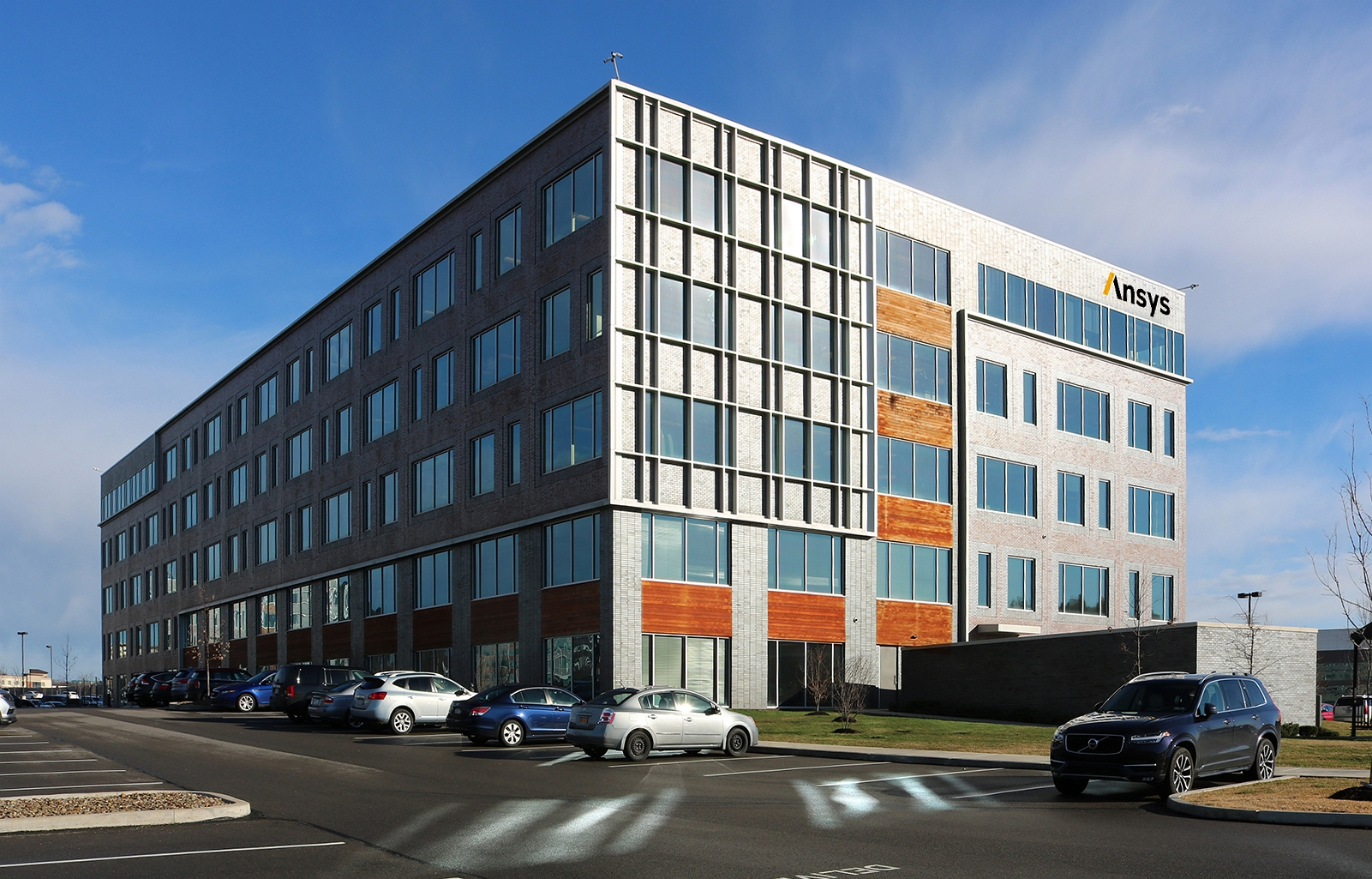 ANSYS, Inc. Headquarters Building in Canonsburg, PA